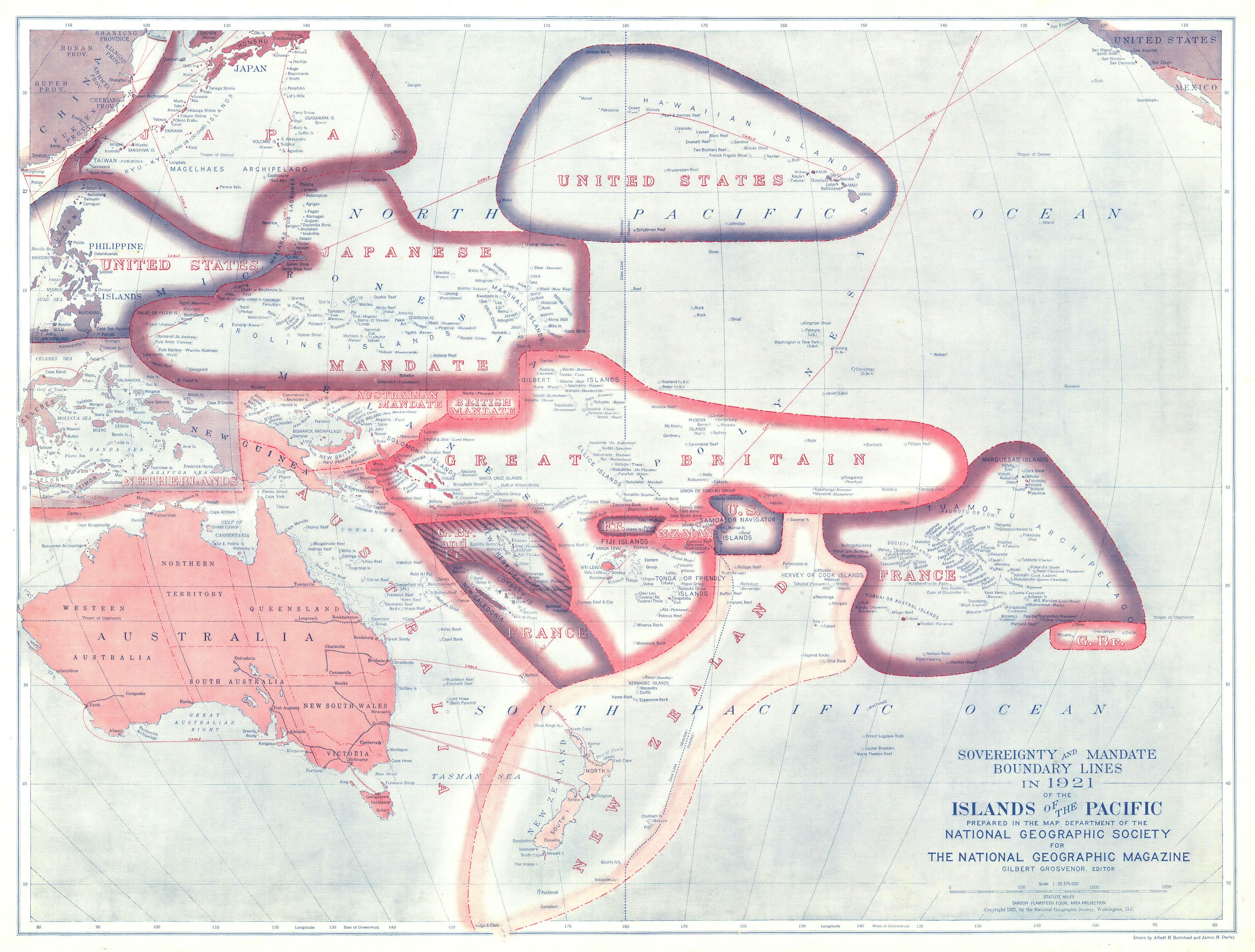 Published with December 1921 issue of National Geographic Magazine.